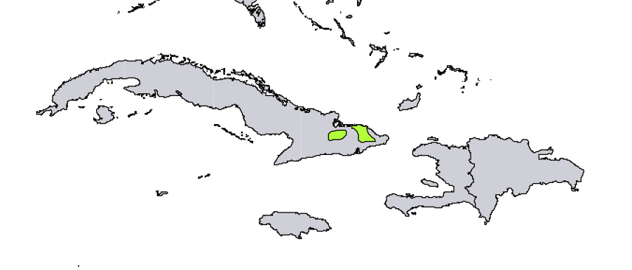 Range map of Pinus cubensis